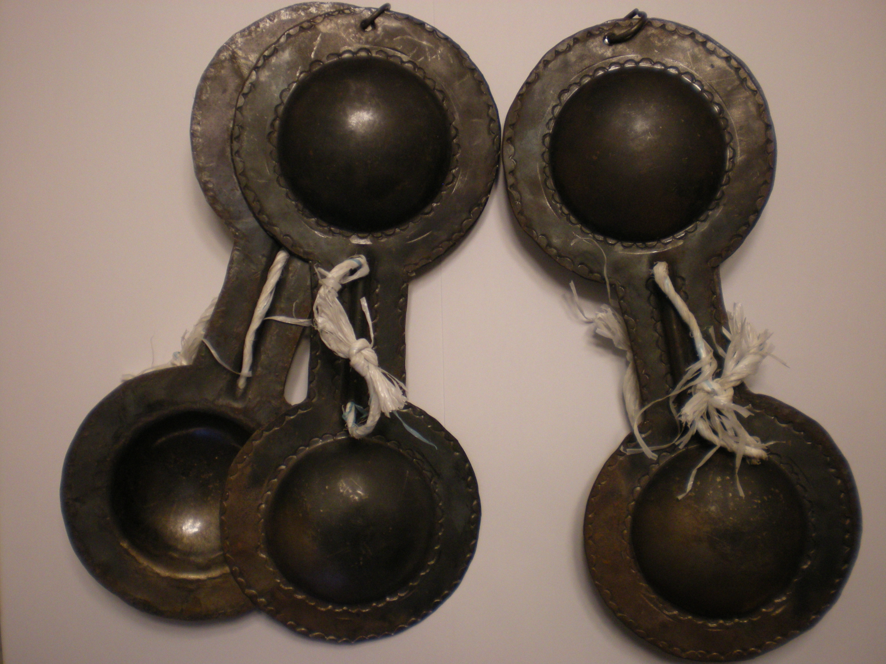 The arabic percussion instrument Krakebs (قراقب)